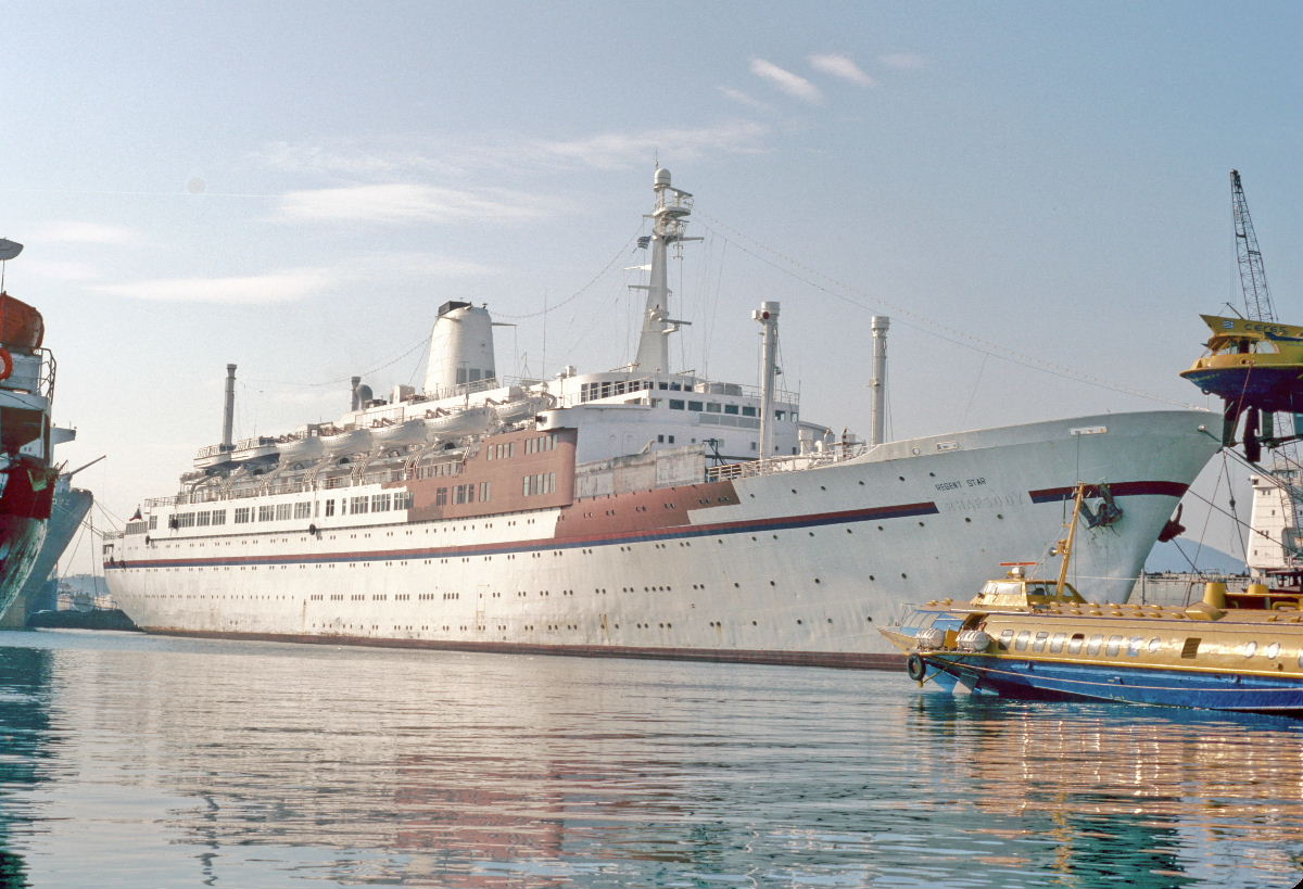 The cruise ship Regent Star during its rebuilding in Perama in 1986.